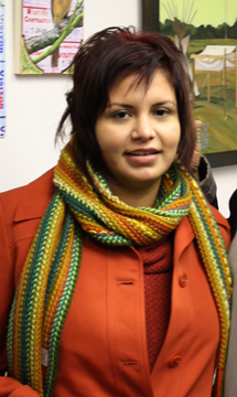 April Holder, Sauk and Fox/Wichita/Tonkawa artist from Shawnee, Oklahoma